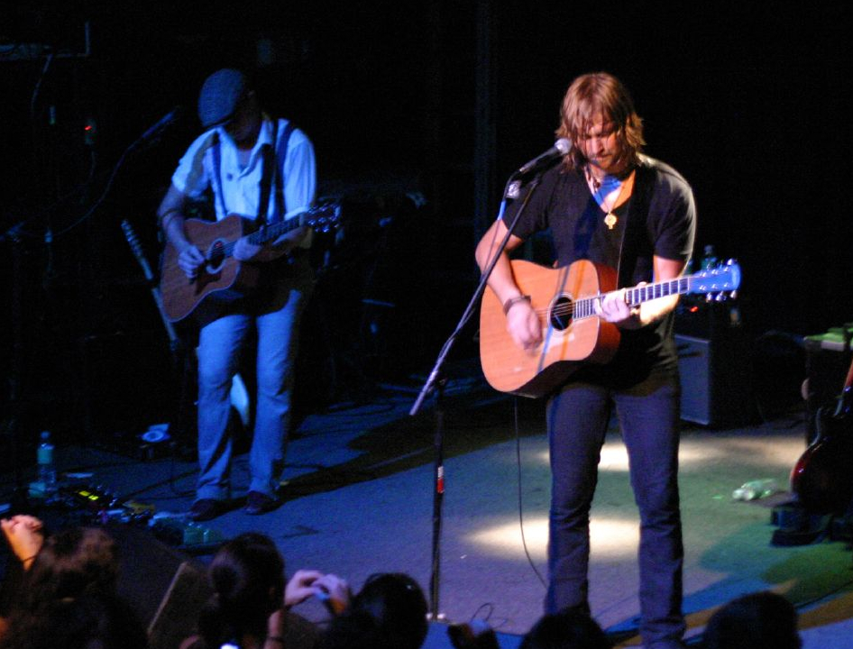 (L-R) Brothers Bo Rinehart and Bear Rinehart from the band Needtobreathe